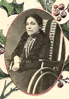 A white woman with dark hair, wearing black, seated in a wheelchair with a high back. Her hands are clasped in her lap. The photograph is in an oval frame decorated with holly leaves and berries.